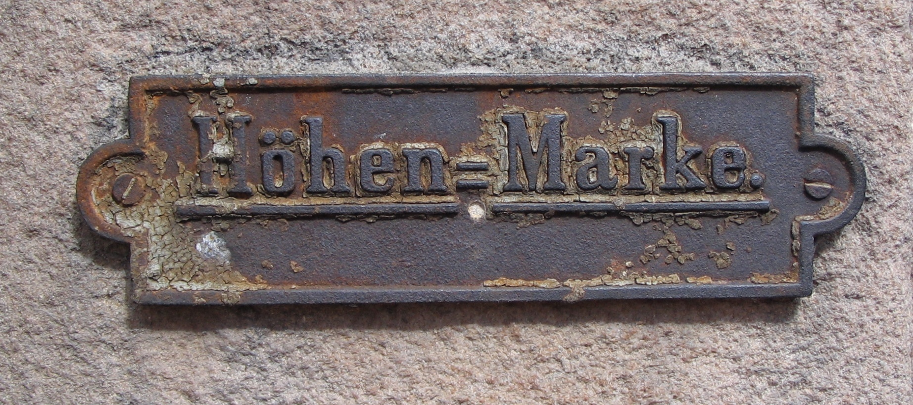 A German benchmark, found in Tübingen, Mühlstraße.